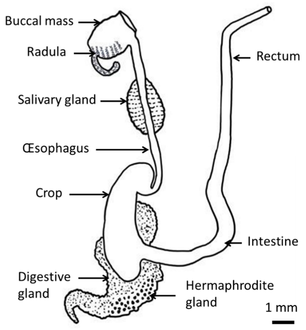 Drawing of the digestive system of Notodiscus hookeri. Scale bar is 1 mm.